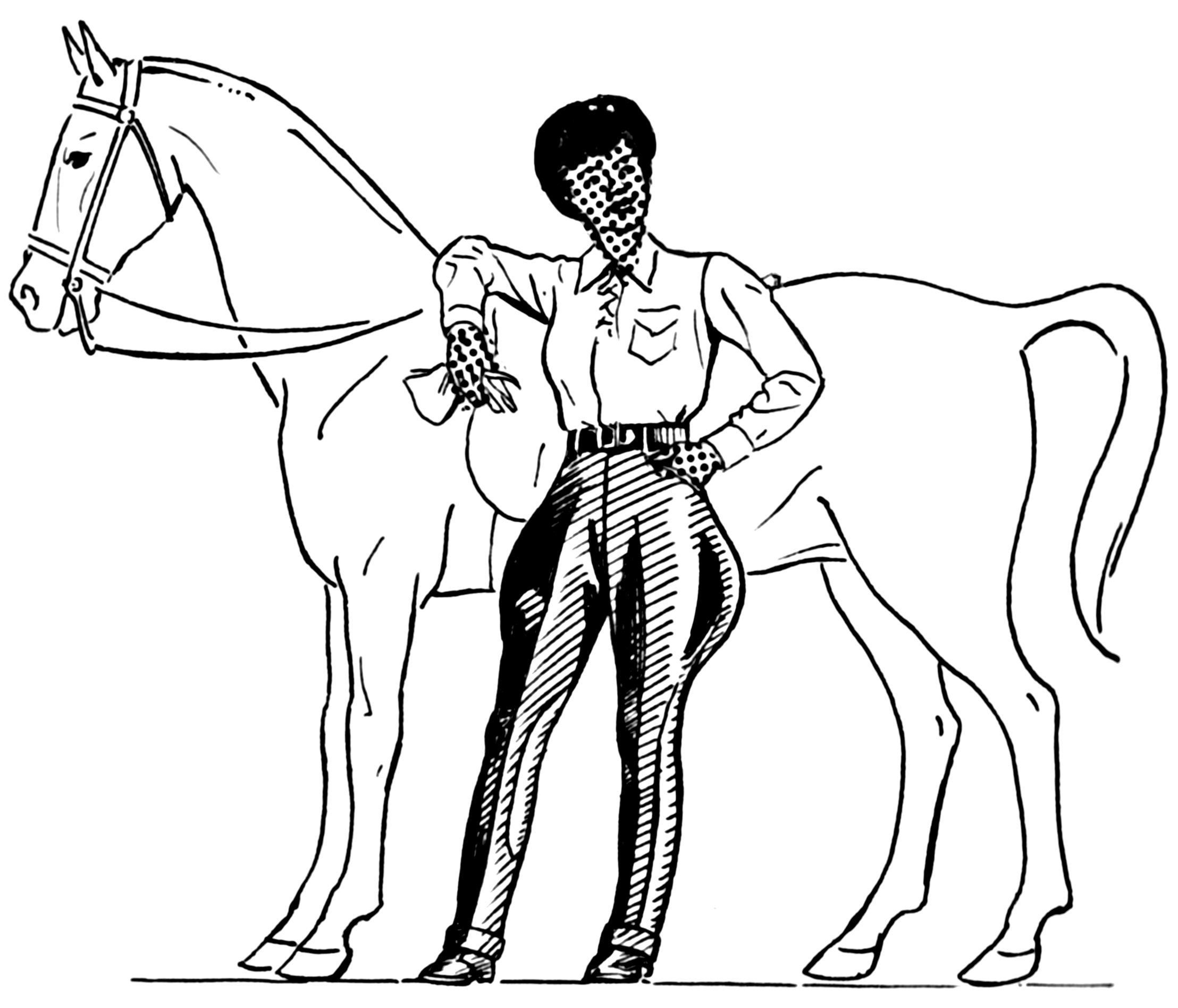 Line art drawing of jodhpurs.